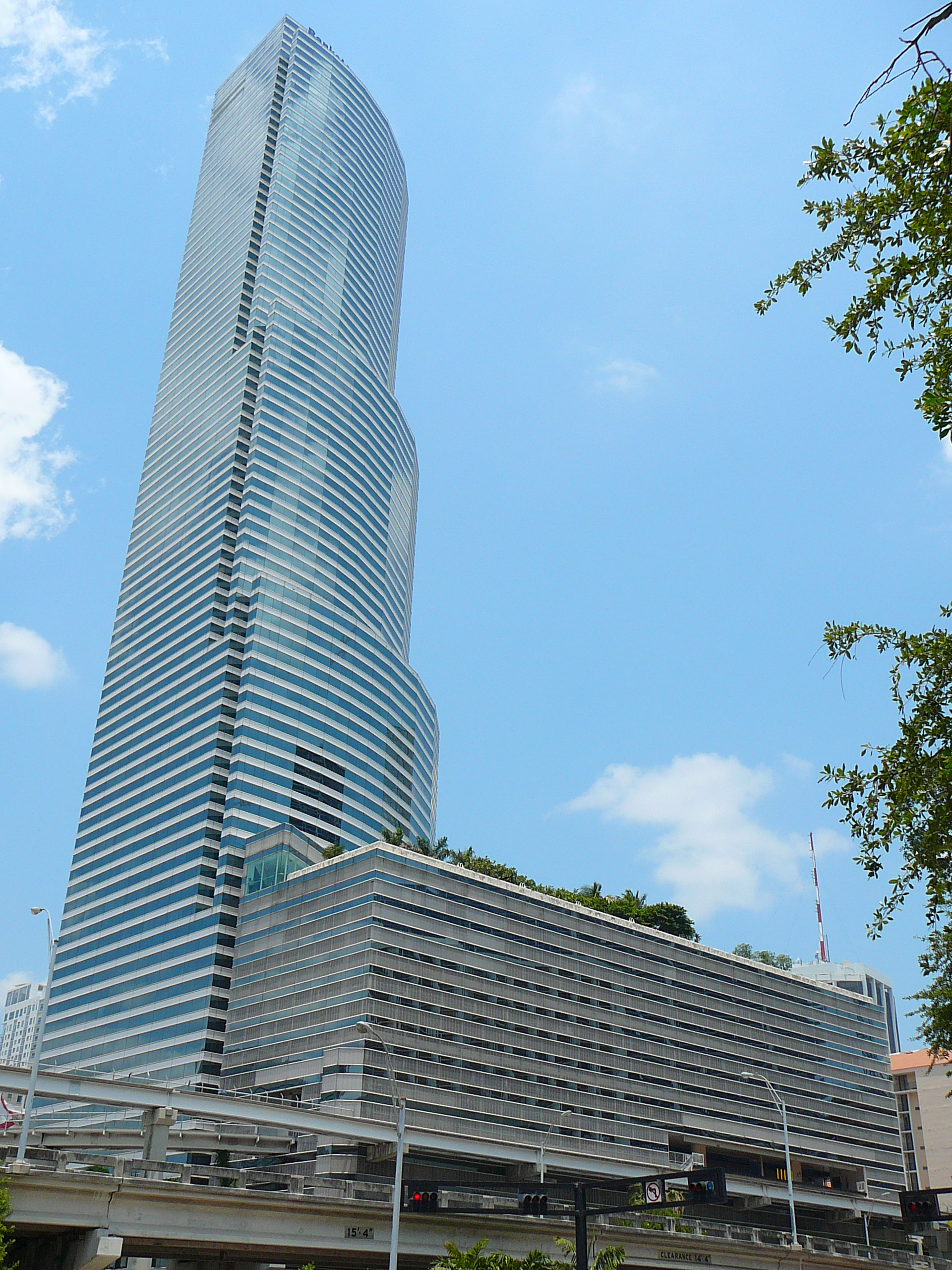 Digital photo taken by Marc Averette. The Bank of America Tower (Miami) in downtown Miami, full view of garage and sky terrace 5/14/2008